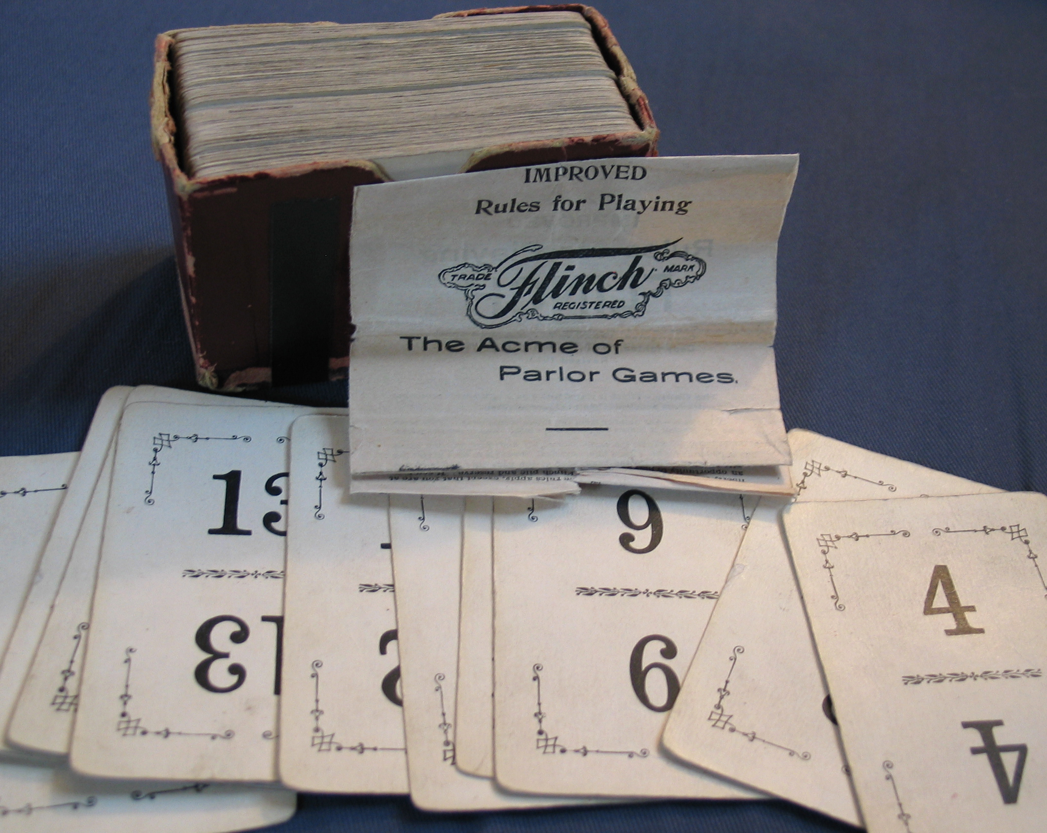 so excited to use these cards in my art! found at the local antique mall for $3.